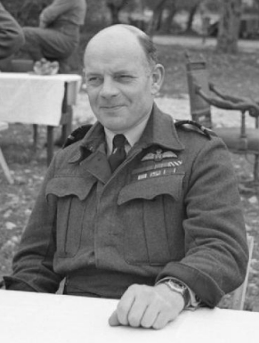 Air Vice-Marshal W Dickson, Air Officer Commanding the Desert Air Force, sitting down to afternoon tea while attending a conference at the Tactical Headquarters of the 8th Army, near Venafro, Italy.